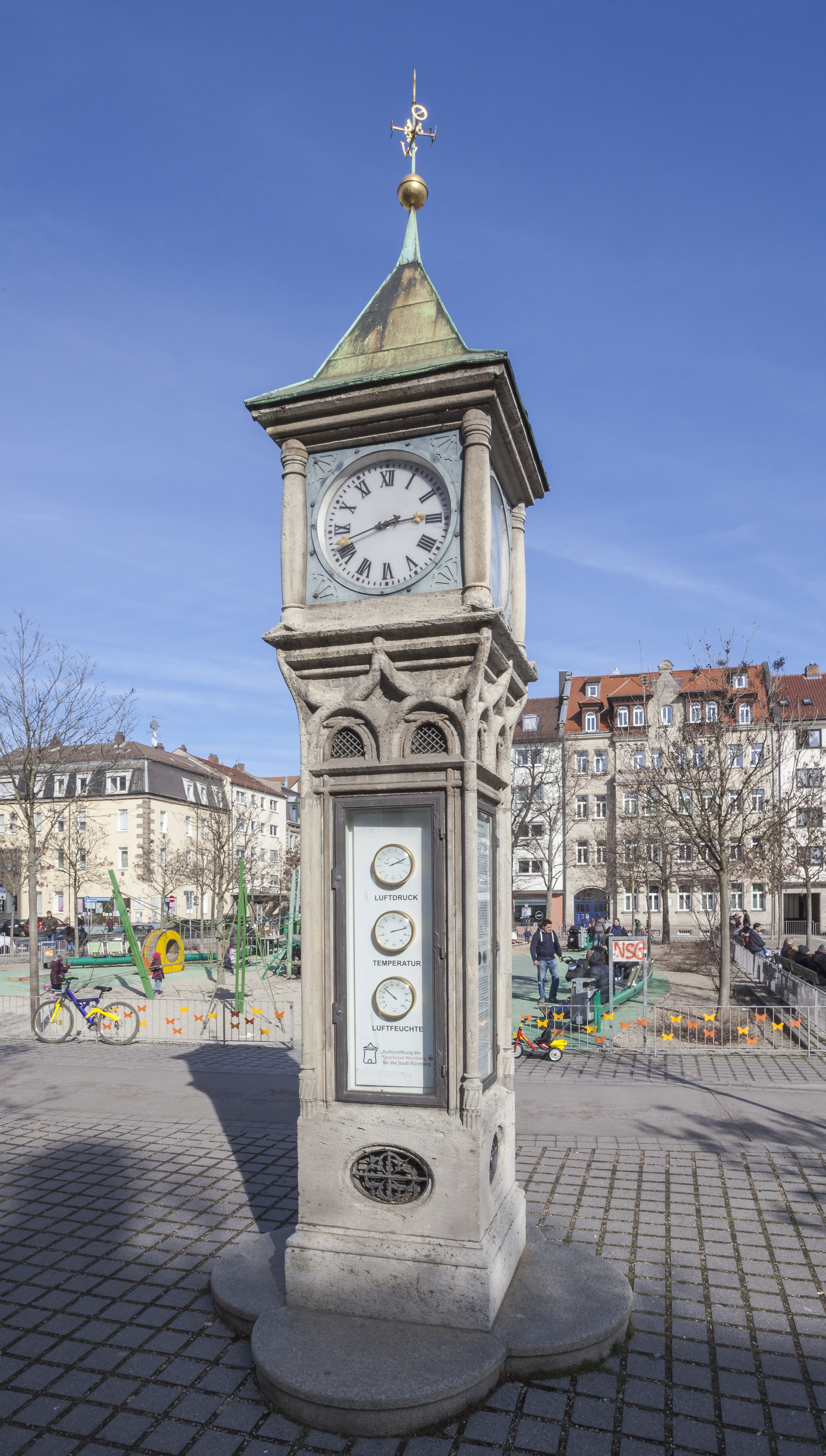 Clock and weather station in Aufsessplatz square, Nuremberg, Germany